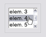 list box